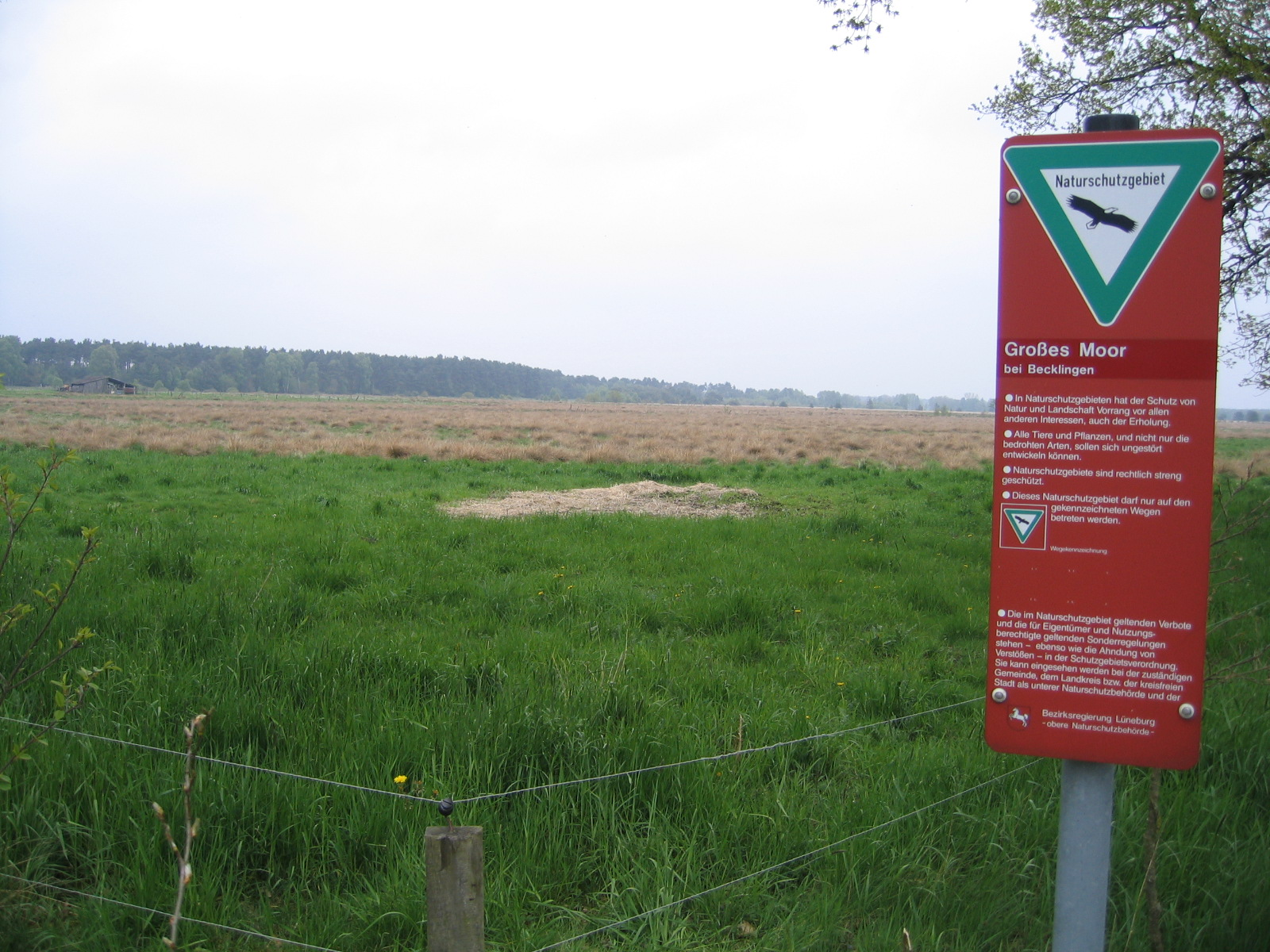 Part of the Großes Moor near Becklingen, Lower Saxony, Germany, looking left (NNW) of the track from Becklingen towards Tannensieksberg.